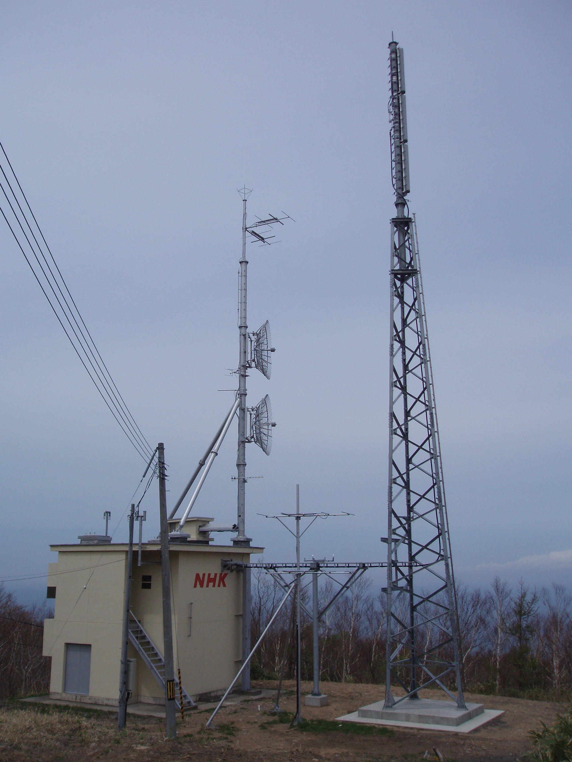 NHK digital television transmitter at the Iwanai Broadcasting Relay Station